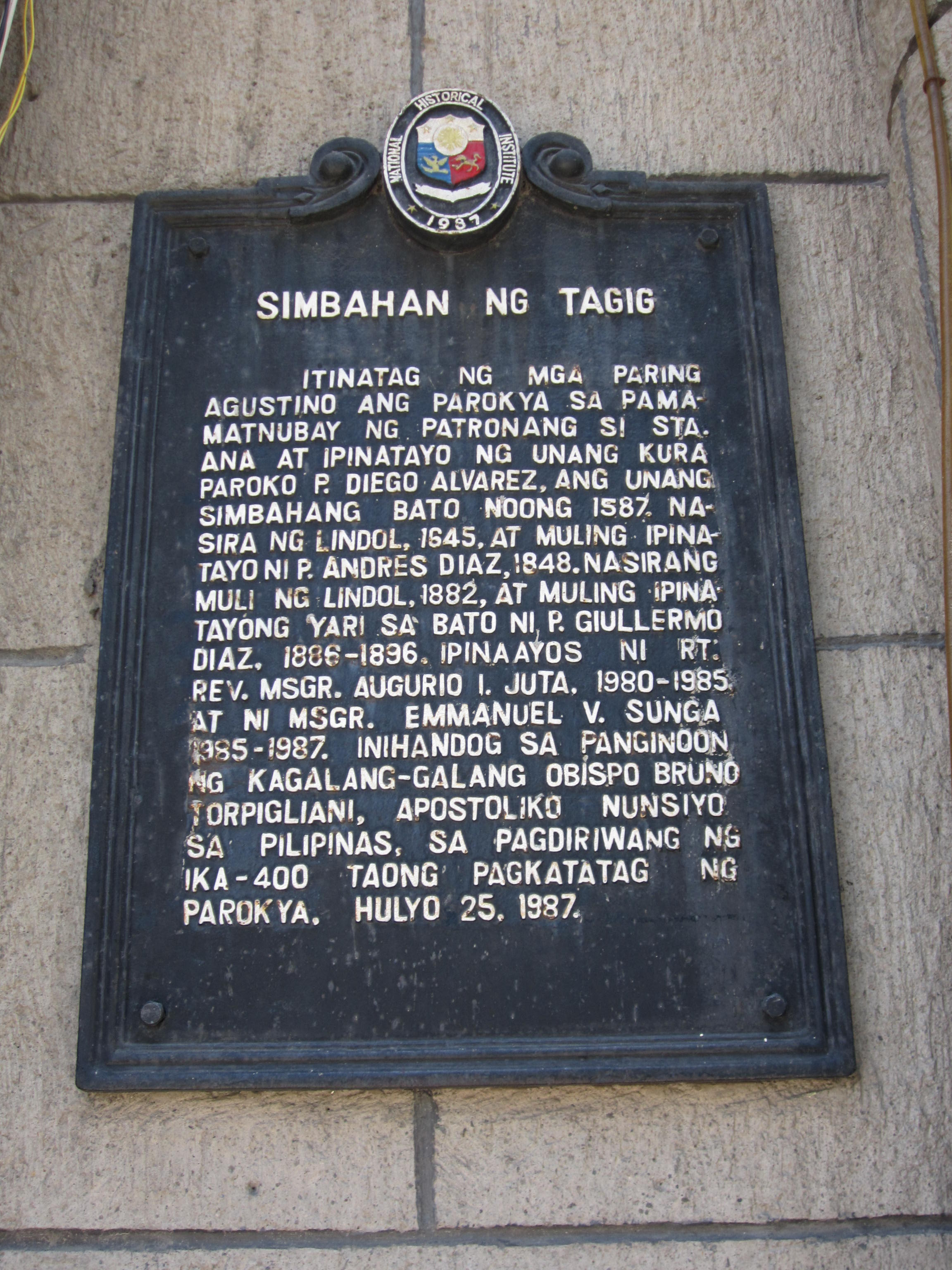 Simbahan ng Taguig Historical Marker